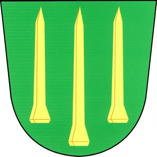 Coat of arms of Hačky, Prostějov District